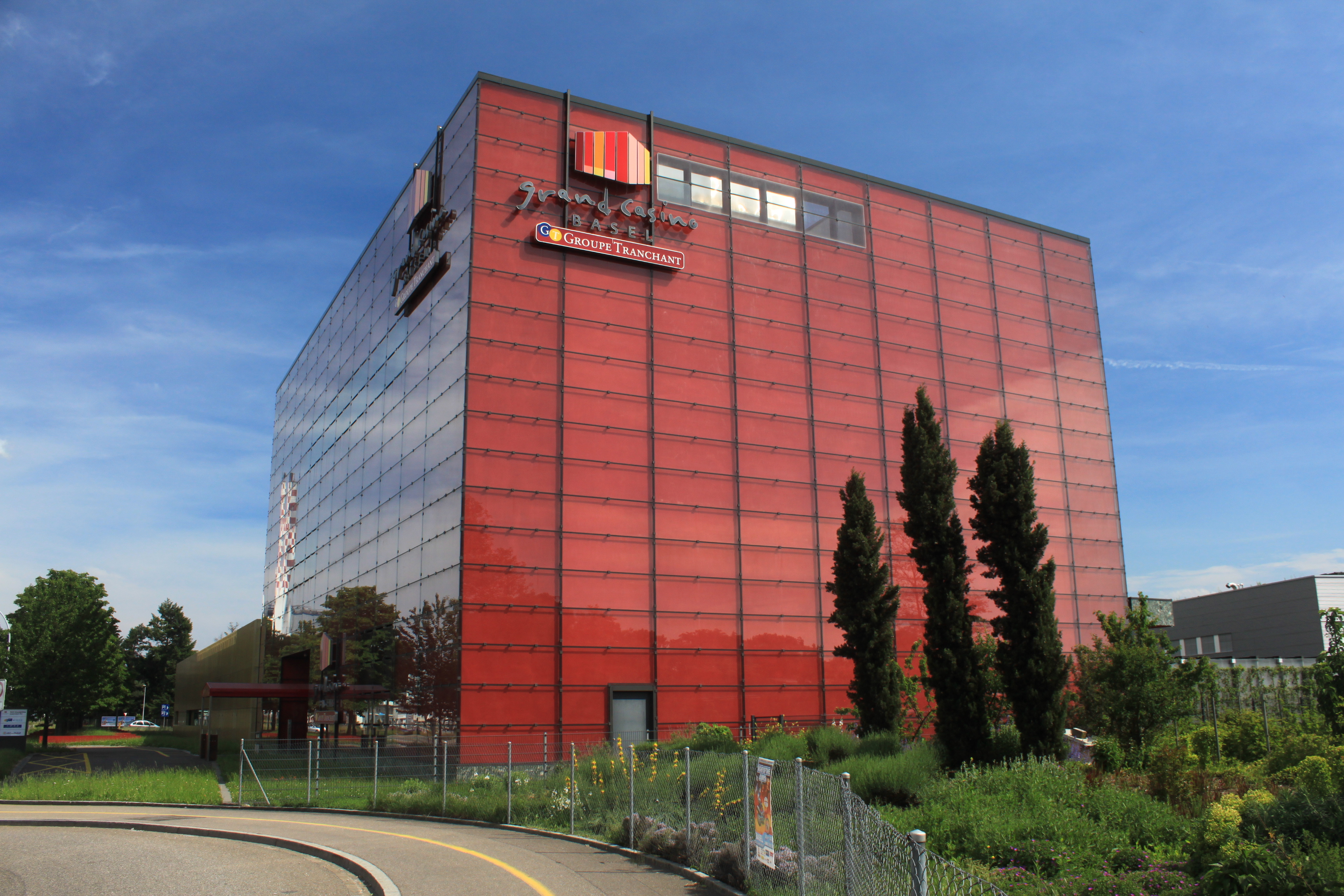 Grand Casino Basel